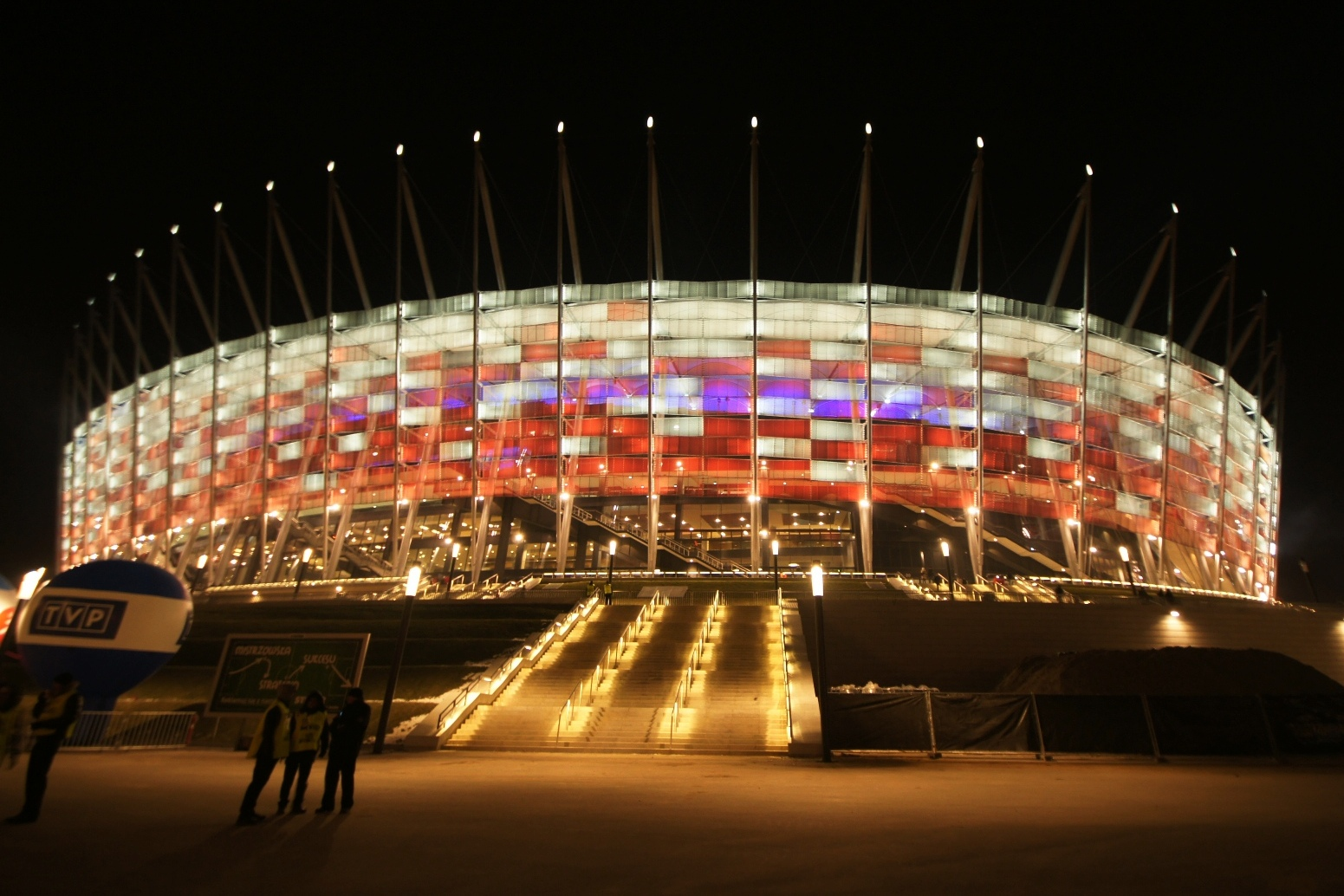 The inauguration event at the National Stadium in Warsaw